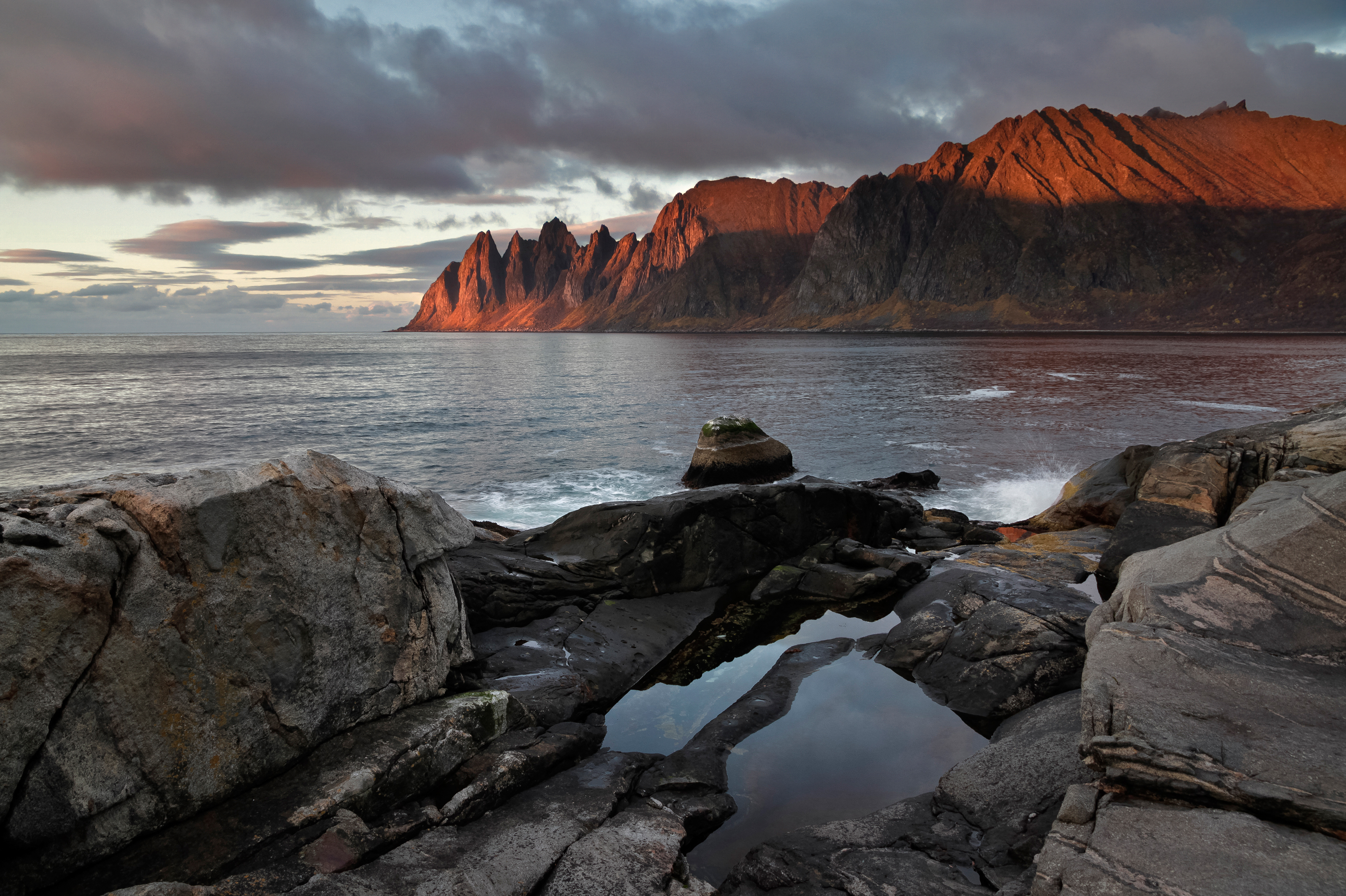 Oksneset and the Okshornan mountains in low sunlight as seen from Tungeneset in evening in 2012 October. The fjord between the viewpoint and the wild cape is Ersfjorden. The place is located at the northwest coasts of Senja island in Troms, northern Norway.